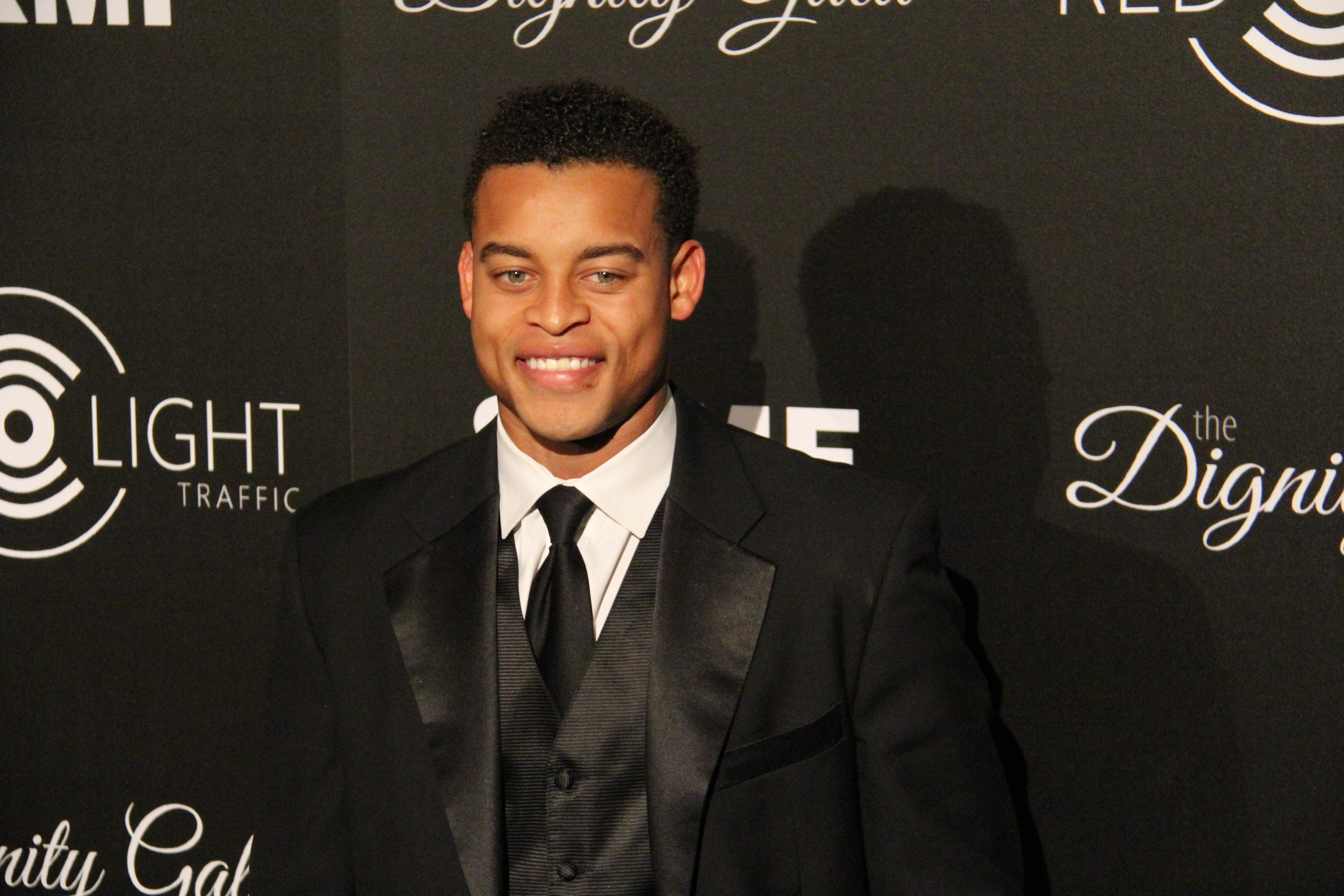 Robert Ri'chard ("The Vampire Diaries") at Redlight Traffic's inaugural Dignity Gala (Michelle Tiu / Neon Tommy)